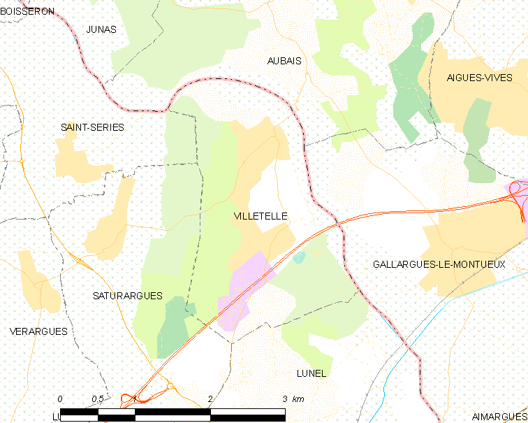 Map commune FR insee code 34340.png - Villetelle